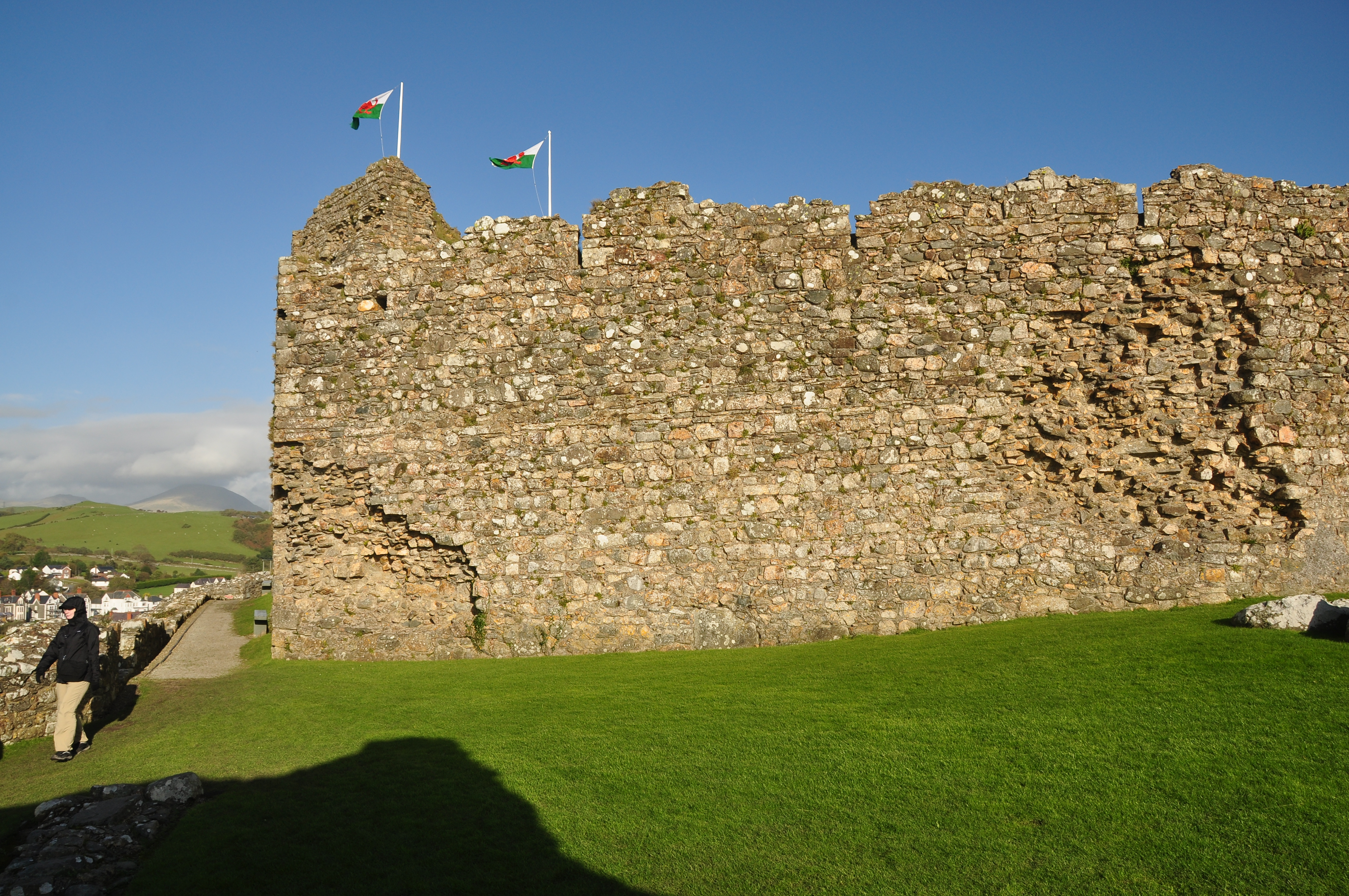 Criccieth Castle